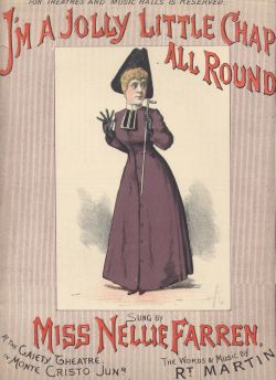 Sheet music from a song sung by Nellie Farren in 1886.